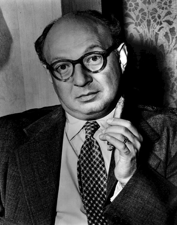 Photo of Robert H. Harris as Jake Goldberg from the television program The Goldbergs.